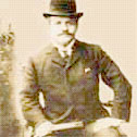 Camille Brenner takes over the hotel in 1890 from his father A.A. Brenner